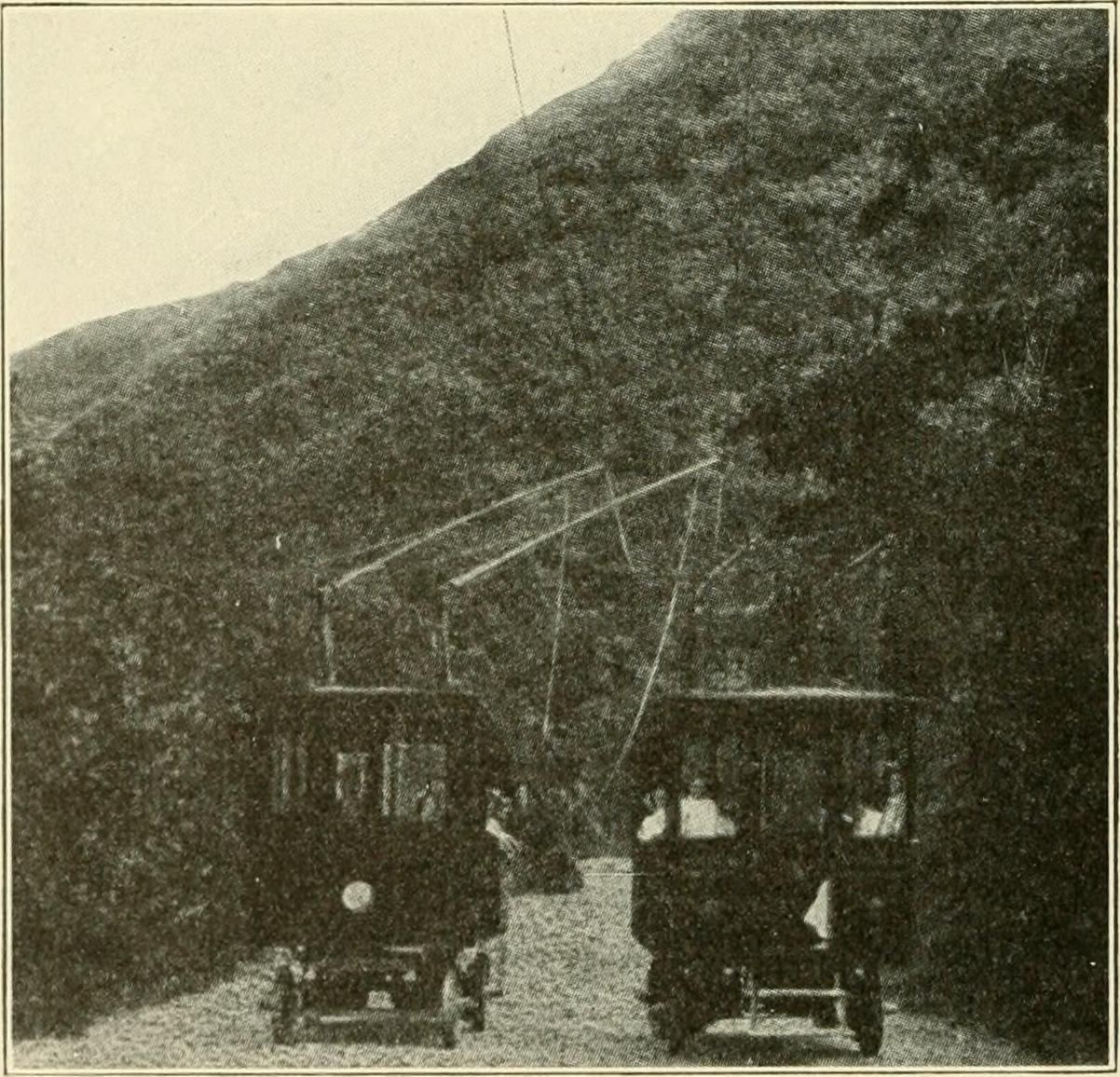 Title: Cyclopedia of applied electricity : a general reference work on direct-current generators and motors, storage batteries, electrochemistry, welding, electric wiring, meters, electric lighting, electric railways, power stations, switchboards, power transmission, alternating-current machinery, telegraphy, etc. Year: 1916 (1910s) Authors: American Technical Society Subjects: Electric engineering Publisher: Chicago : American Technical Society Text Appearing Before Image: Fig 22. Laurel Canon Trackless Trolley (First in America) onIts Way up the Road Text Appearing After Image: Fig. 23. Cars Passing in Laurel Canon Drive. Car at Right IsCoasting with Trolleys Down 400 TRACKLESS TROLLEY TRACTION 21 American Installations. America is just beginning to realizethe possibilities and advantages of this means of transportation andwill surely develop, before long, a system which will fit conditions. The only installation worth mentioning is that of Los Angeles,California. Figs. 22 and 23 show some pictures of the cars. Theline is about IJ miles long, runs through the Laurel Canon, andis reached via the Pacific Electric Line to Hollywood. The lineoperates at about 500 volts, the power being taken from the line ofthe above-named company. There are no turnouts on the overheadtrolleys, for the whole road is up grade and the cars use the trolleysonly when going uphill; they coast down on the return trip, regulat-ing their speed with the brakes, of which there are two, operatedseparately by foot control. The trolley pole arrangement gives alatitude of about 11 feet on eac